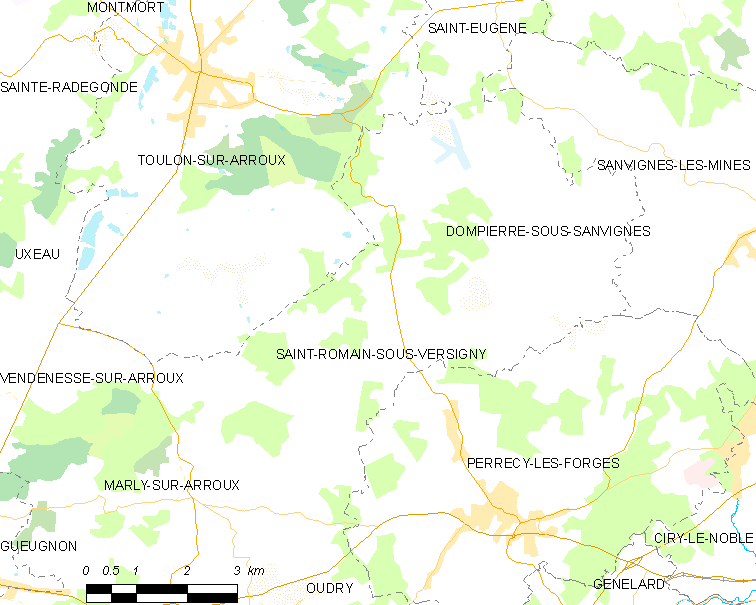 Map of French municipality